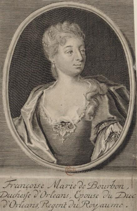 Portrait of Françoise Marie de Bourbon, Duchess of Orléans, Wife of the Duke of Orléans, Regent of the Kingdom